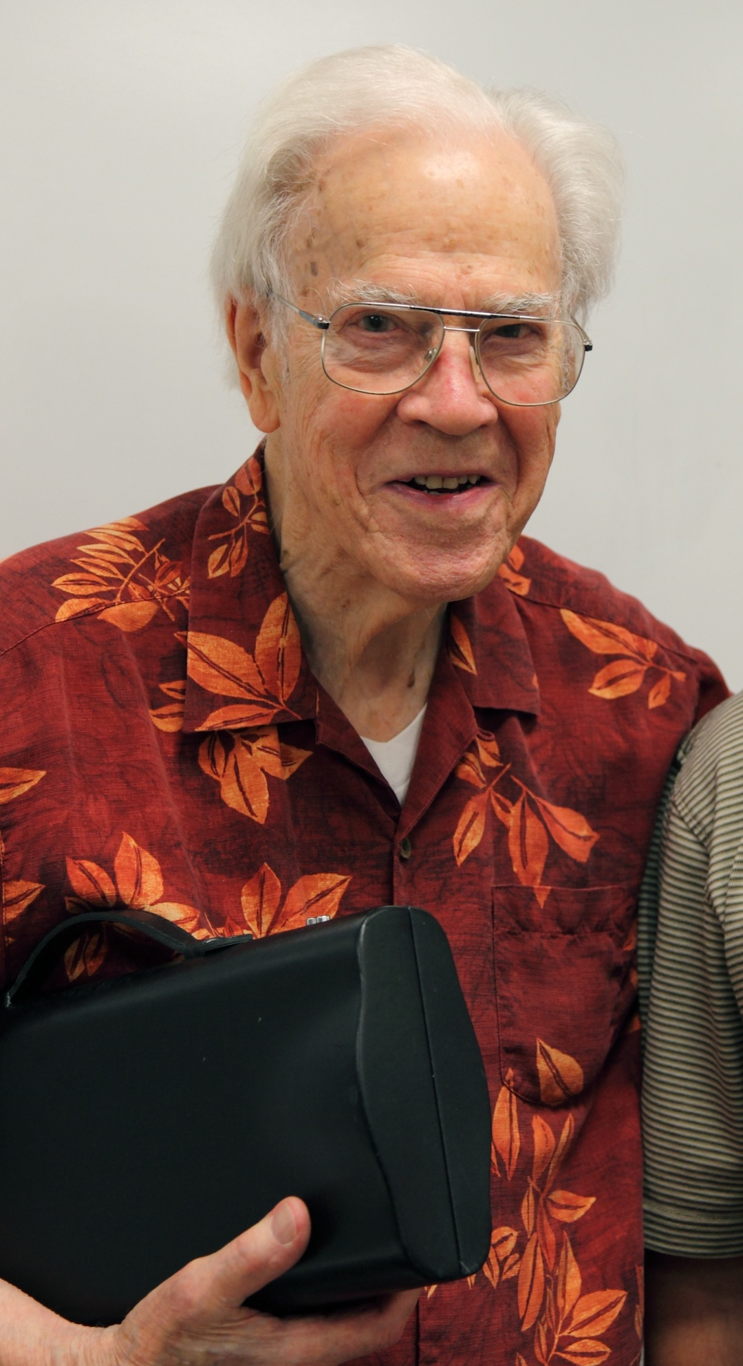 Oregon Symphony Pops Orchestra conductor Norman Leyden (holding his clarinet case) at a 2012 rehearsal of the Glenn Miller Birthplace Society band, in Clarinda, Iowa.